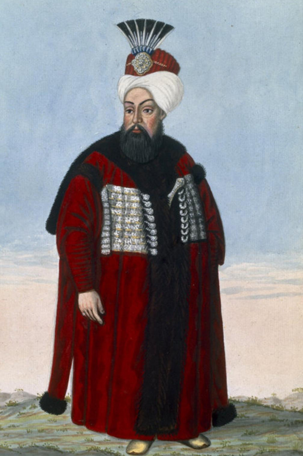 Portrait of Ahmed II, Sultan of the Ottoman Empire (1691-1695). The portrait has been printed using the Giclée process.